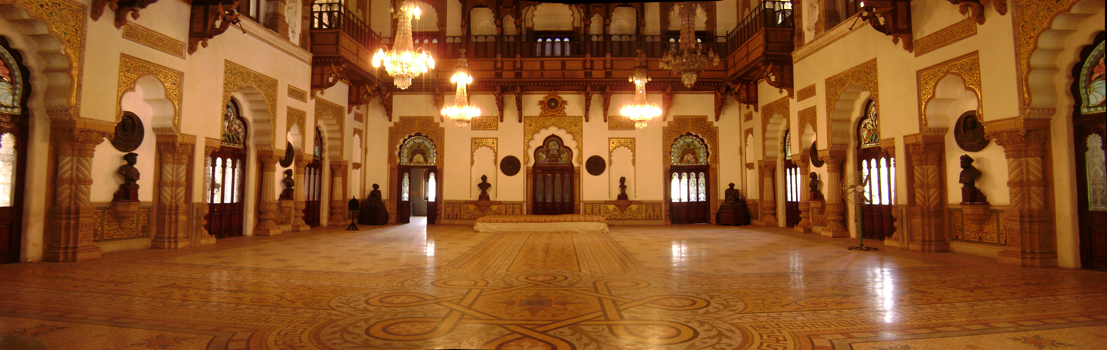 This Darbar hall held the Diwan-e-Khas at Laxmi Vilas palace Vadodara.